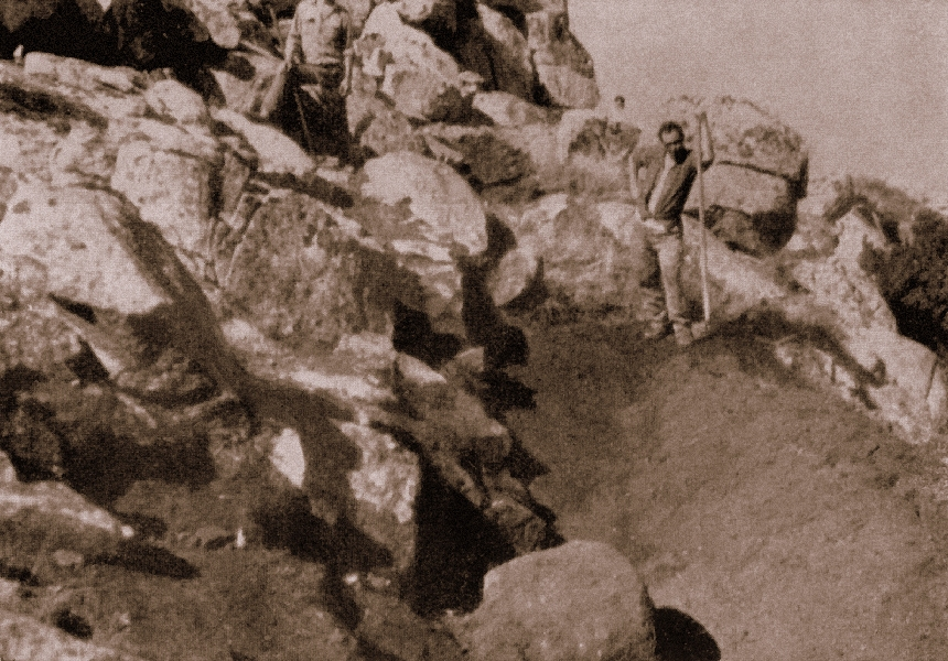 Elba island